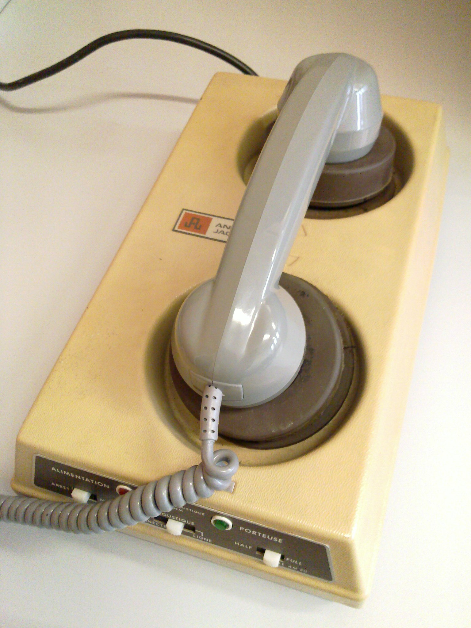 And AM211 Andersen Jacobson acoustic modem (french version) and the phone handle (almost) plugged in